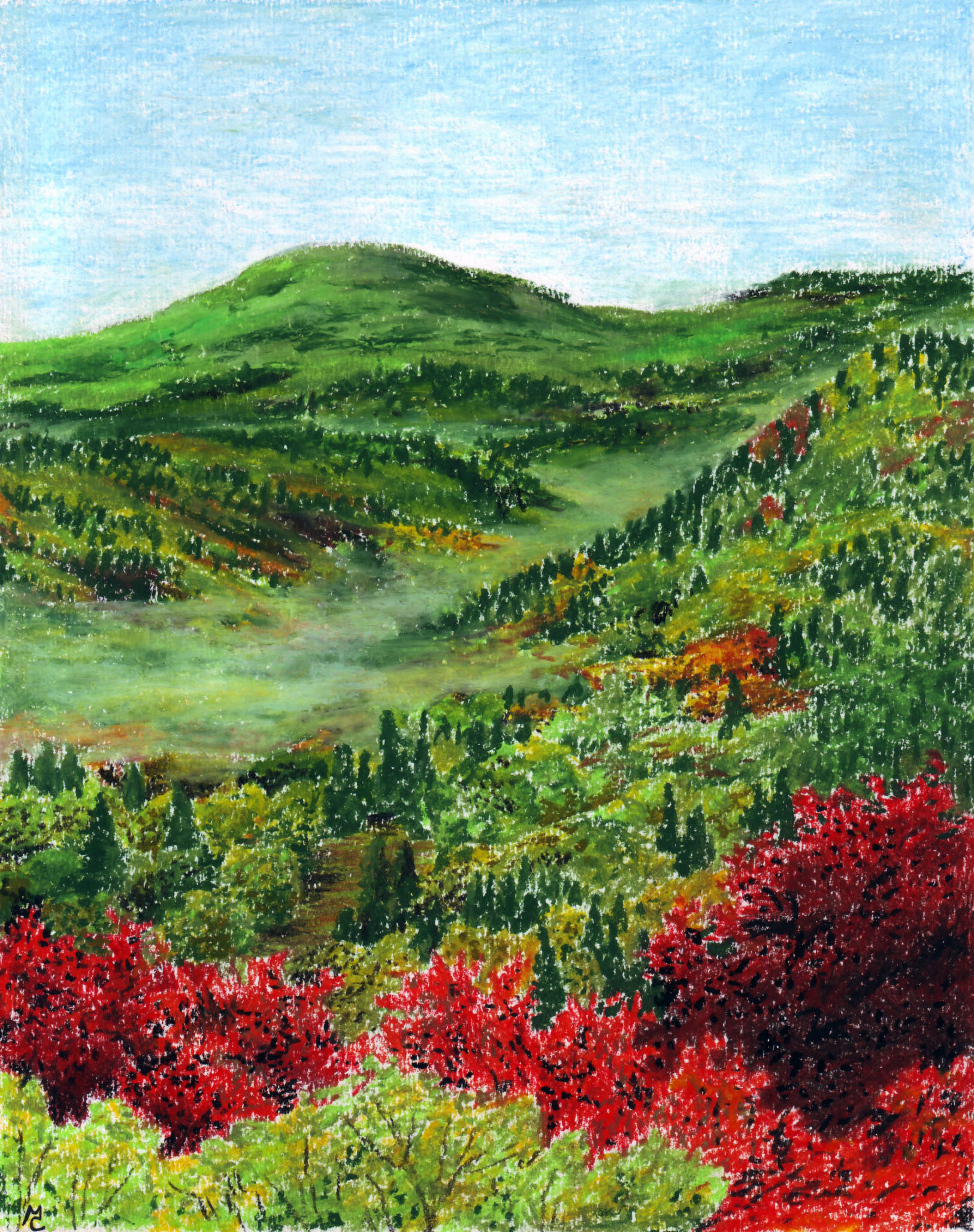 Chetwood in the Bree-landd